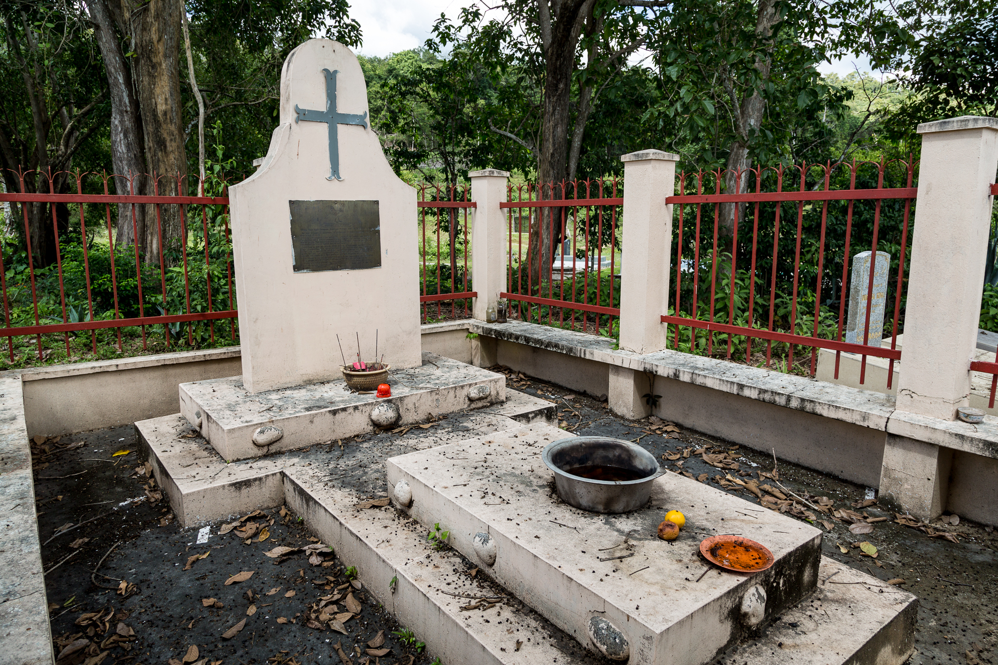 Kg. Bandukan, District Keningau, Sabah, Malaysia: Tombstone of OKK Gunsanad Kina